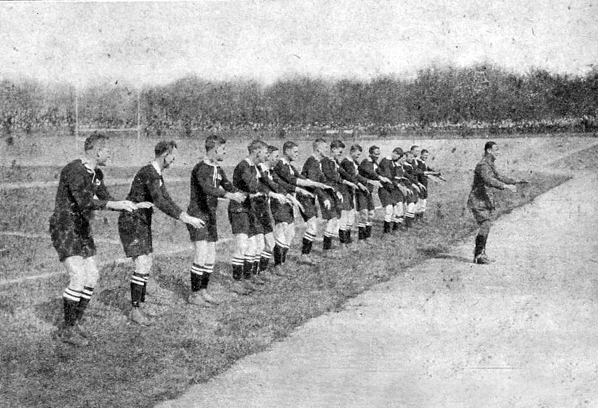 The All Blacks performing the "haka" before a match v France national team, "Coupe de la Somme".